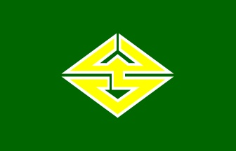 Flag of Chosei Chiba